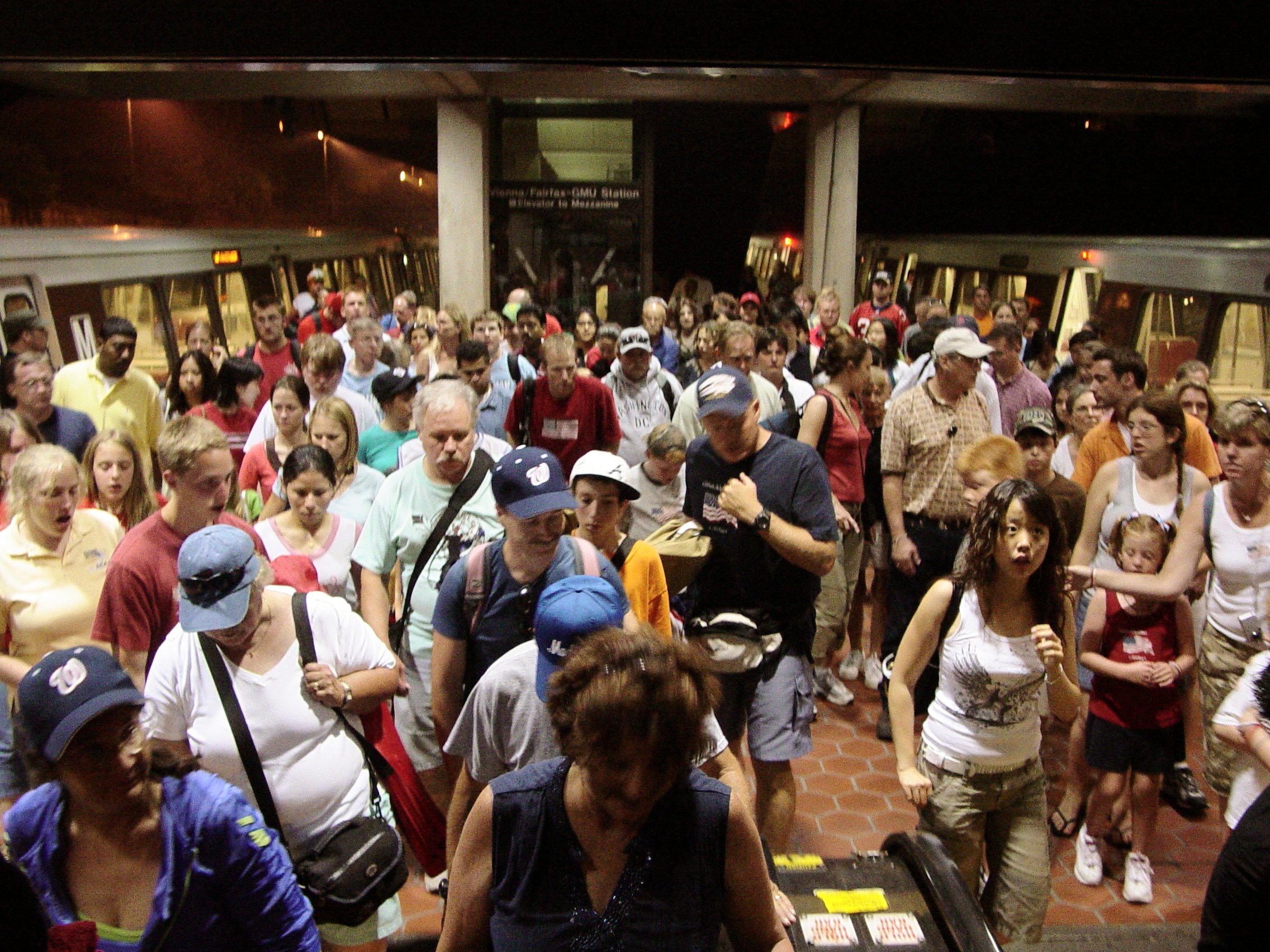 A large crowd, upon arriving at the Vienna/Fairfax-GMU station on the Washington Metro, heads toward the escalator to exit the station. Photo taken July 4, 2006 by Ben Schumin.